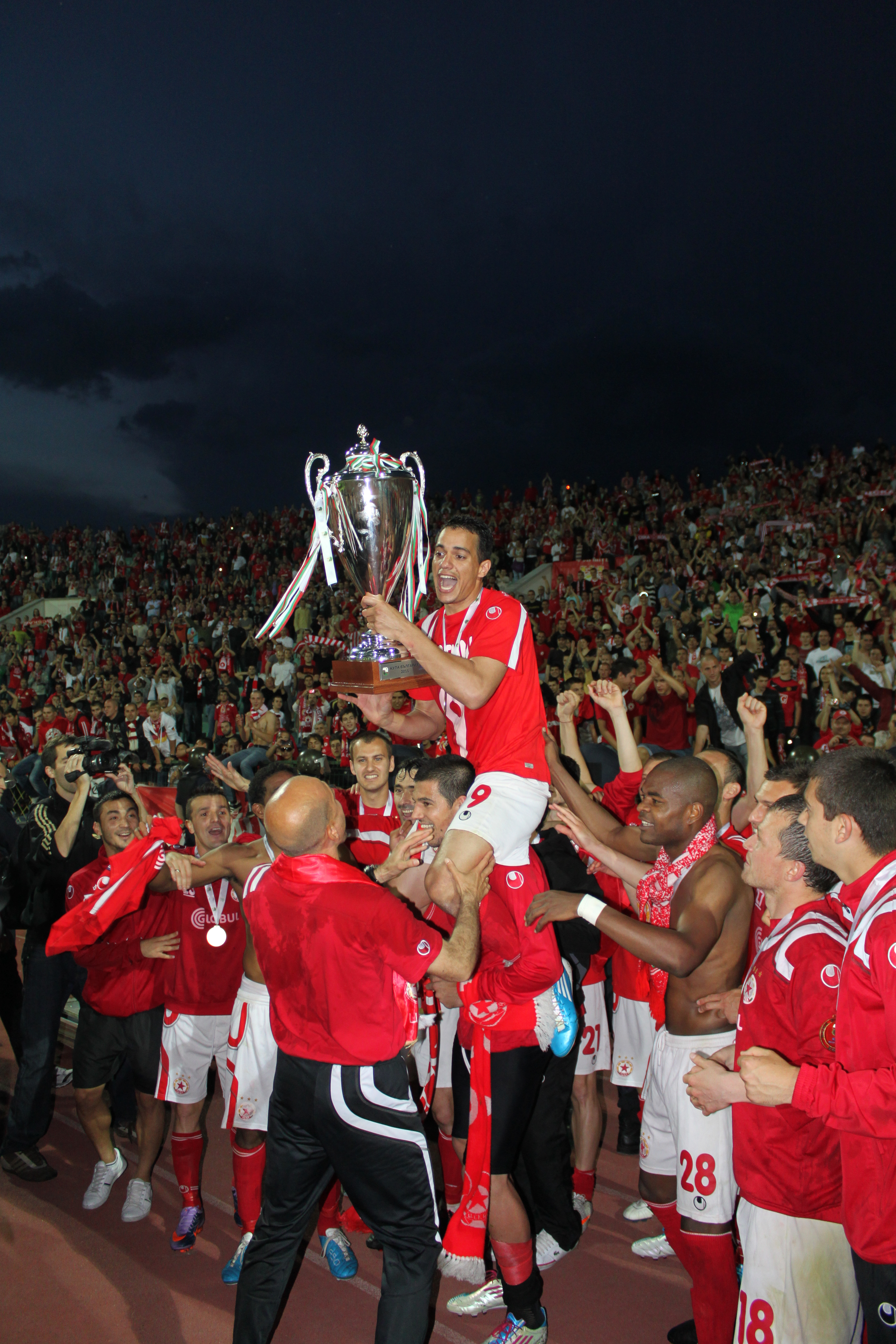 CSKA Sofia celebrates winning the Bulgarian Cup, 25-5-2011